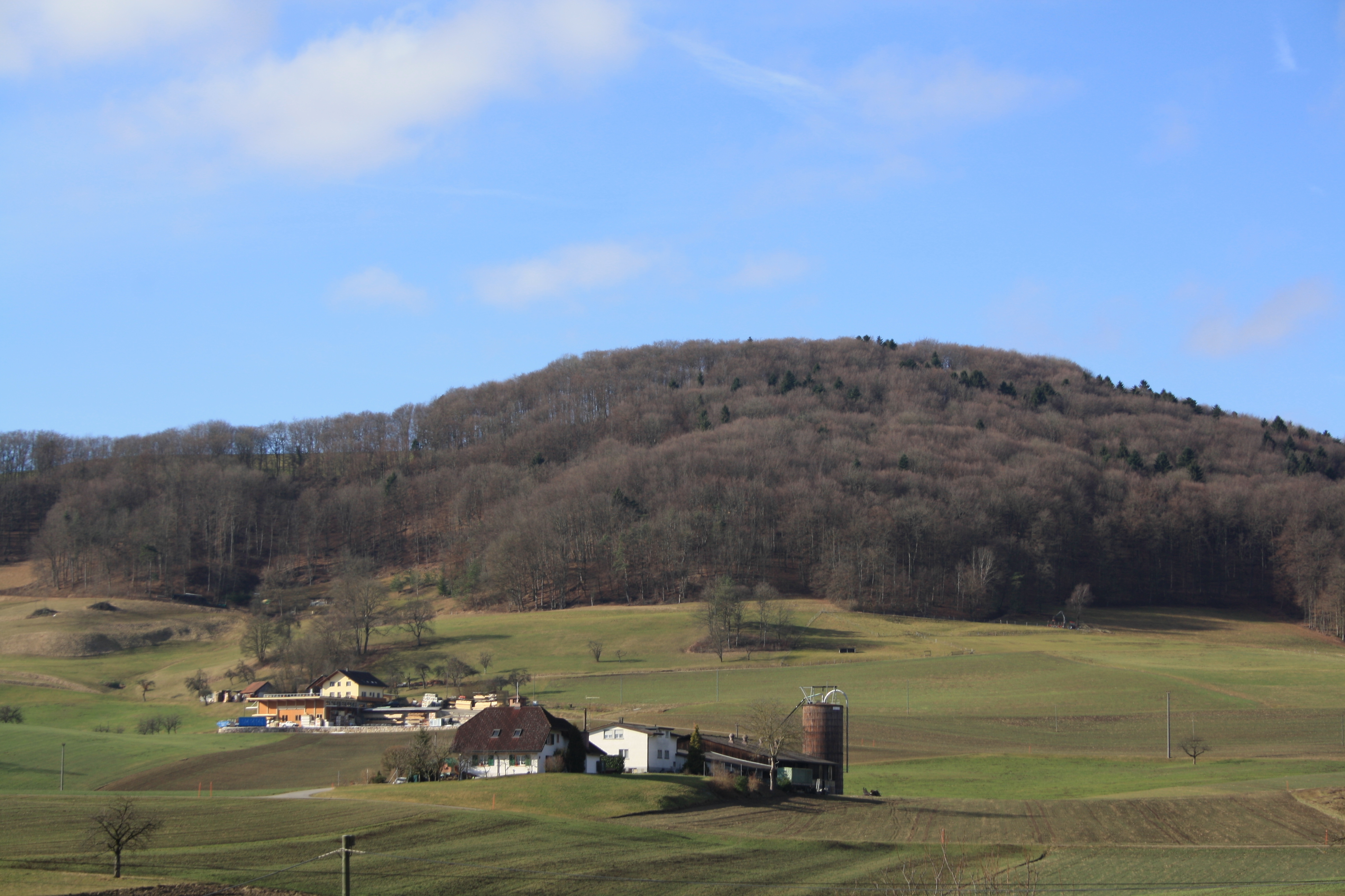 Mönthal